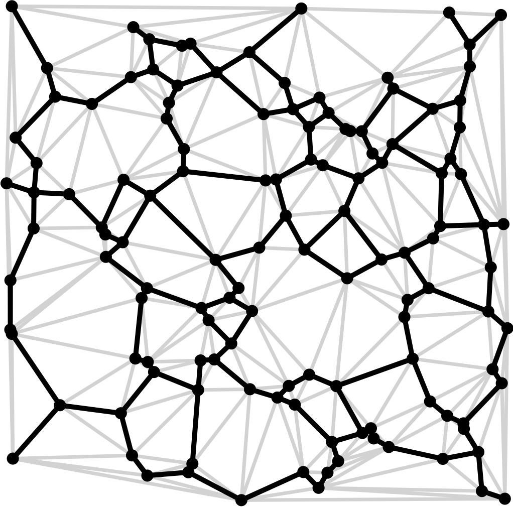 The Relative Neighborhood Graph (RNG) superimposed on the underlying Delaunay Triangulation (grey).